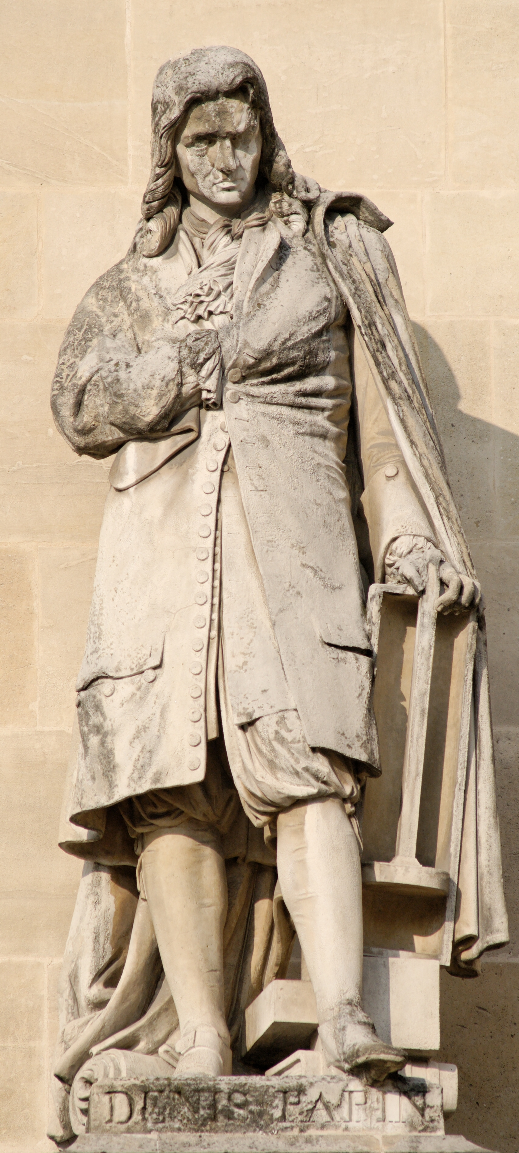 Denis Papin by Jean-François Soitoux. Stone, ca. 1853. 2nd statue from Pavillon Colbert to Pavillon Sully, Cour Napoléon in the Louvre.